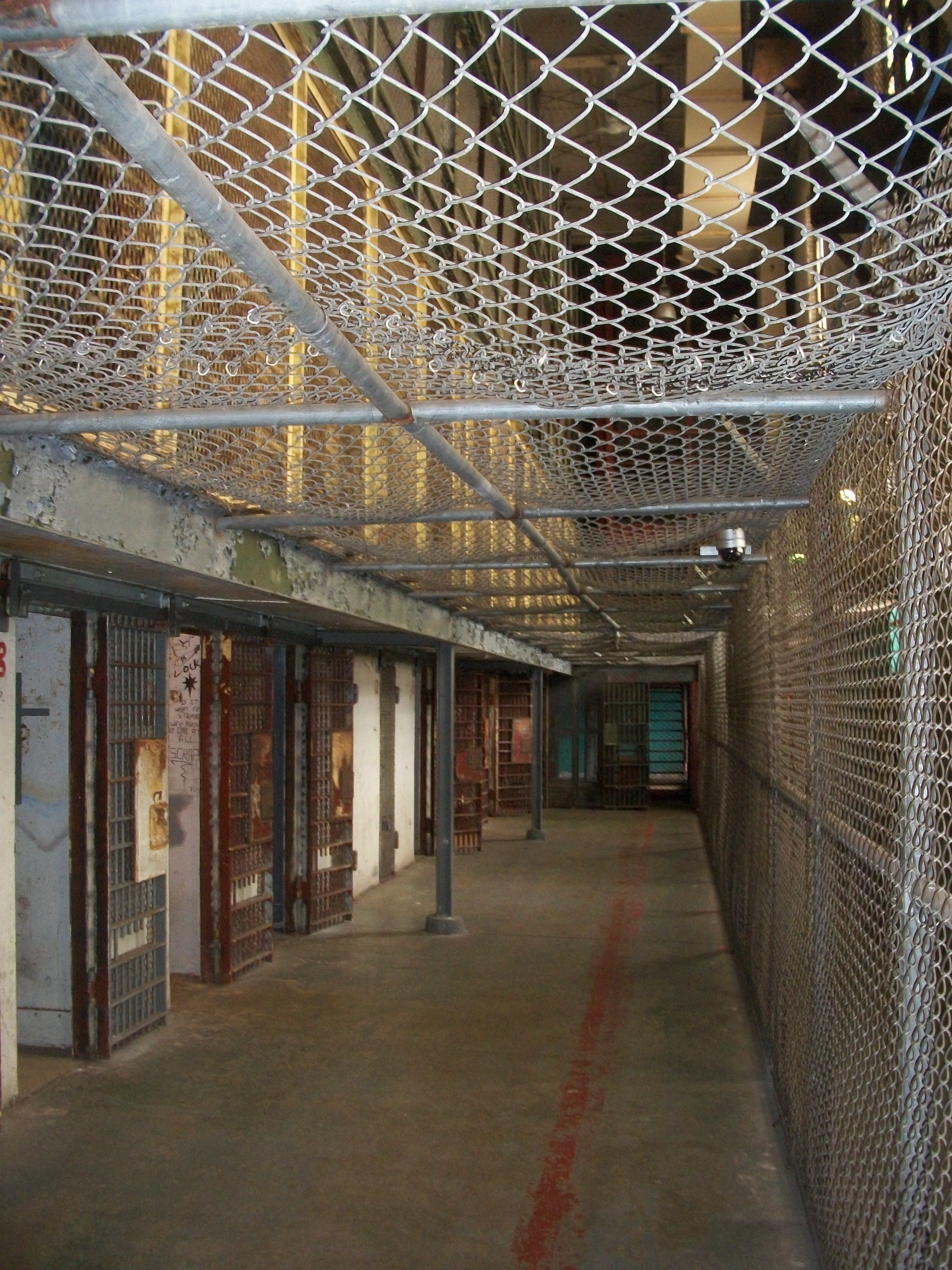 Taken June 14, 2011.